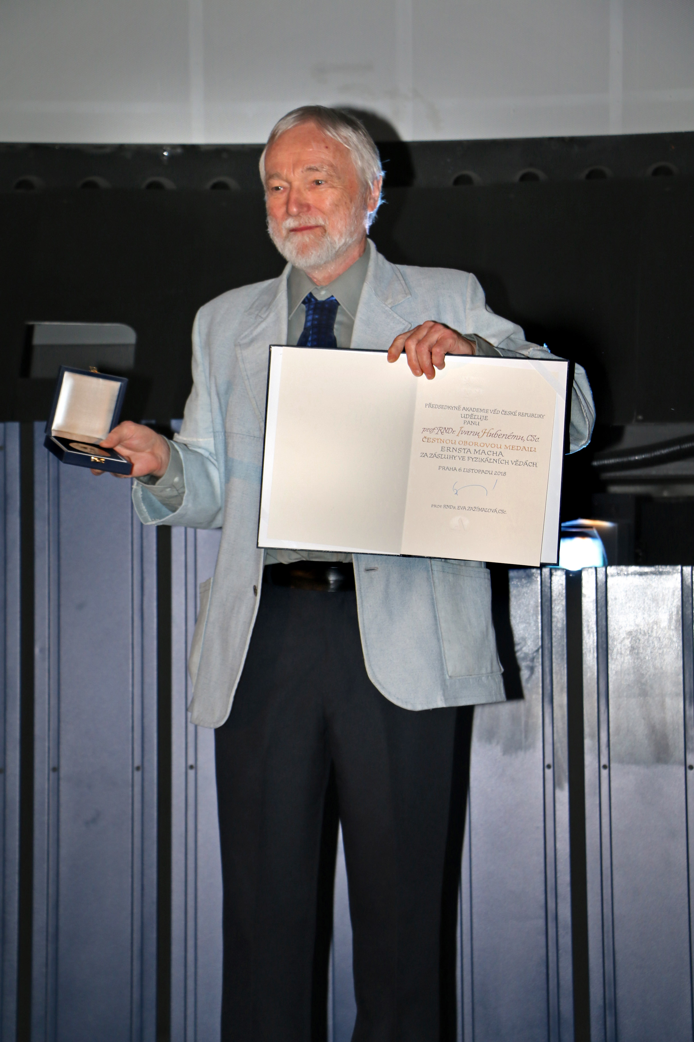 Ivan Hubený receiving the Ernst Mach Honorary Medal for Merit in the Physical Sciences